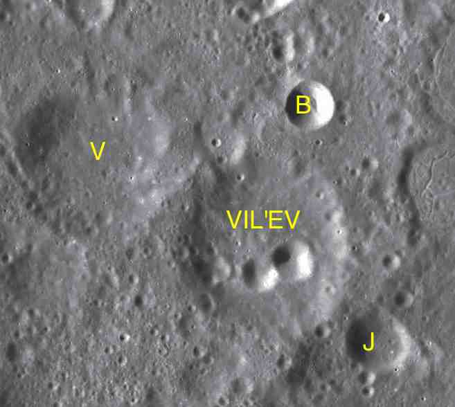 Part of the chart LAC-84 used for the presentation